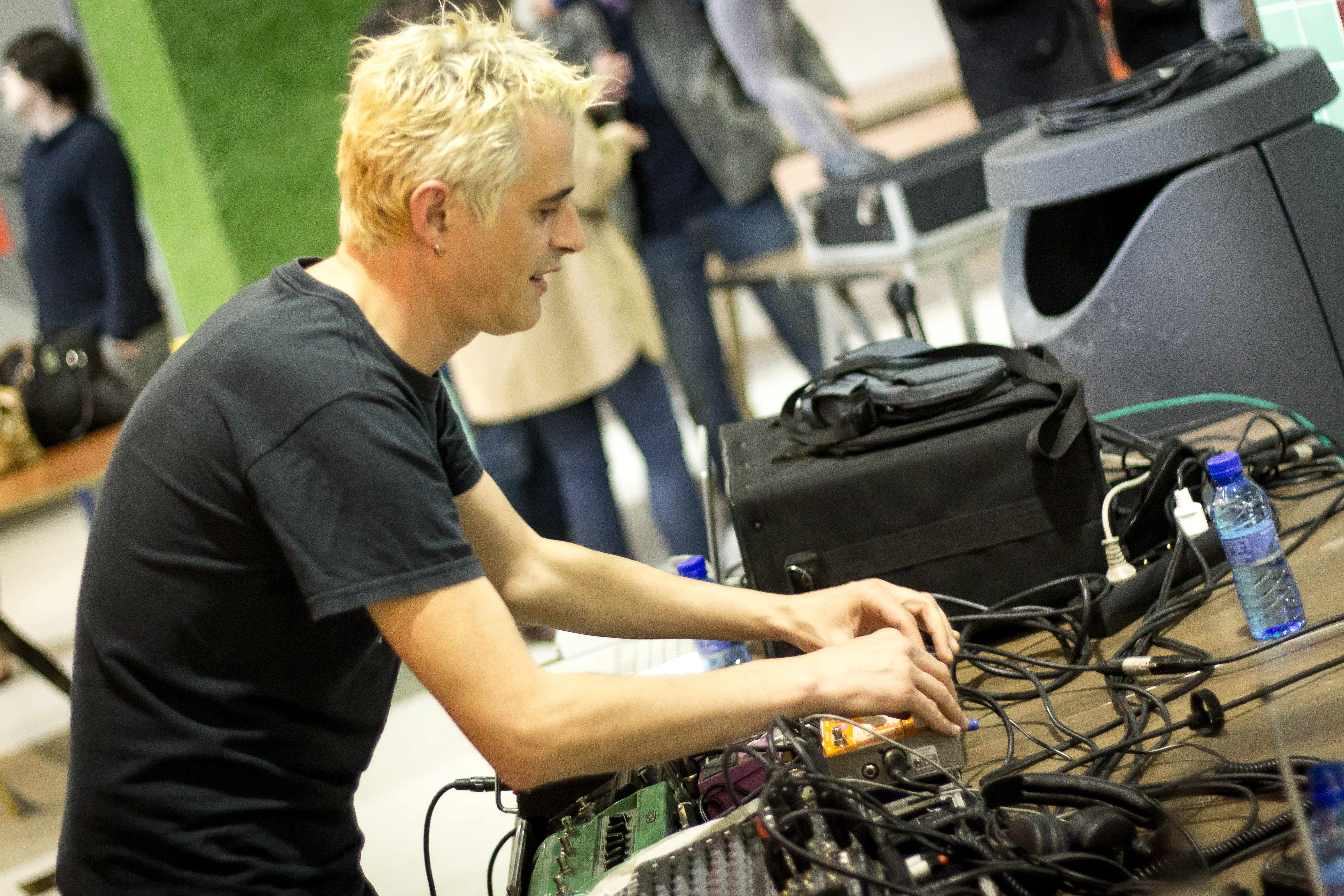 Master do Son in concert with Malandrómeda in Lugo (2016).